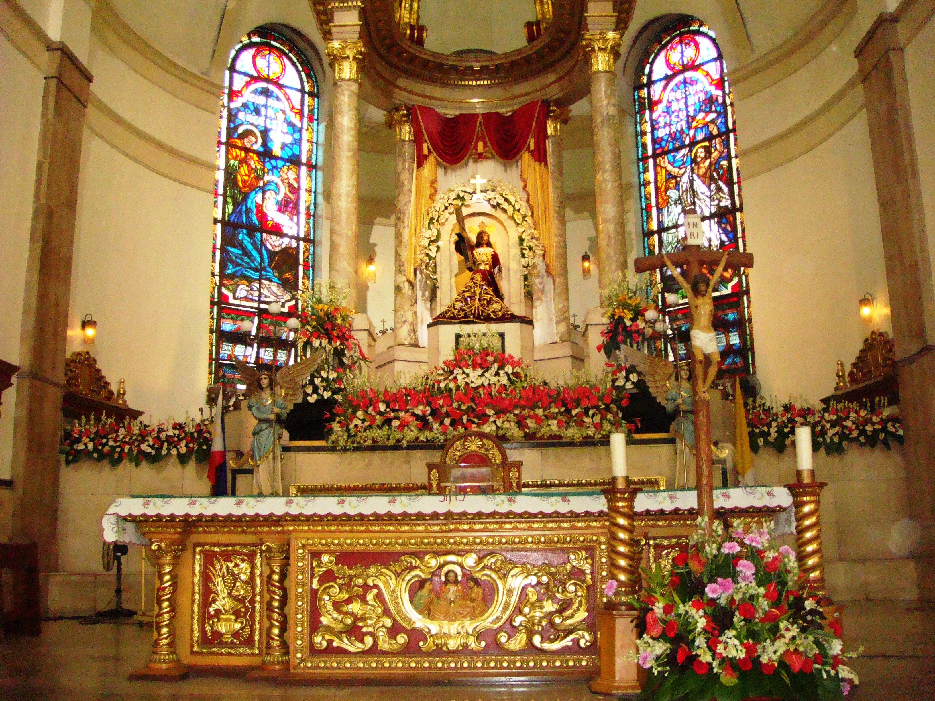 Main Altar of the Church